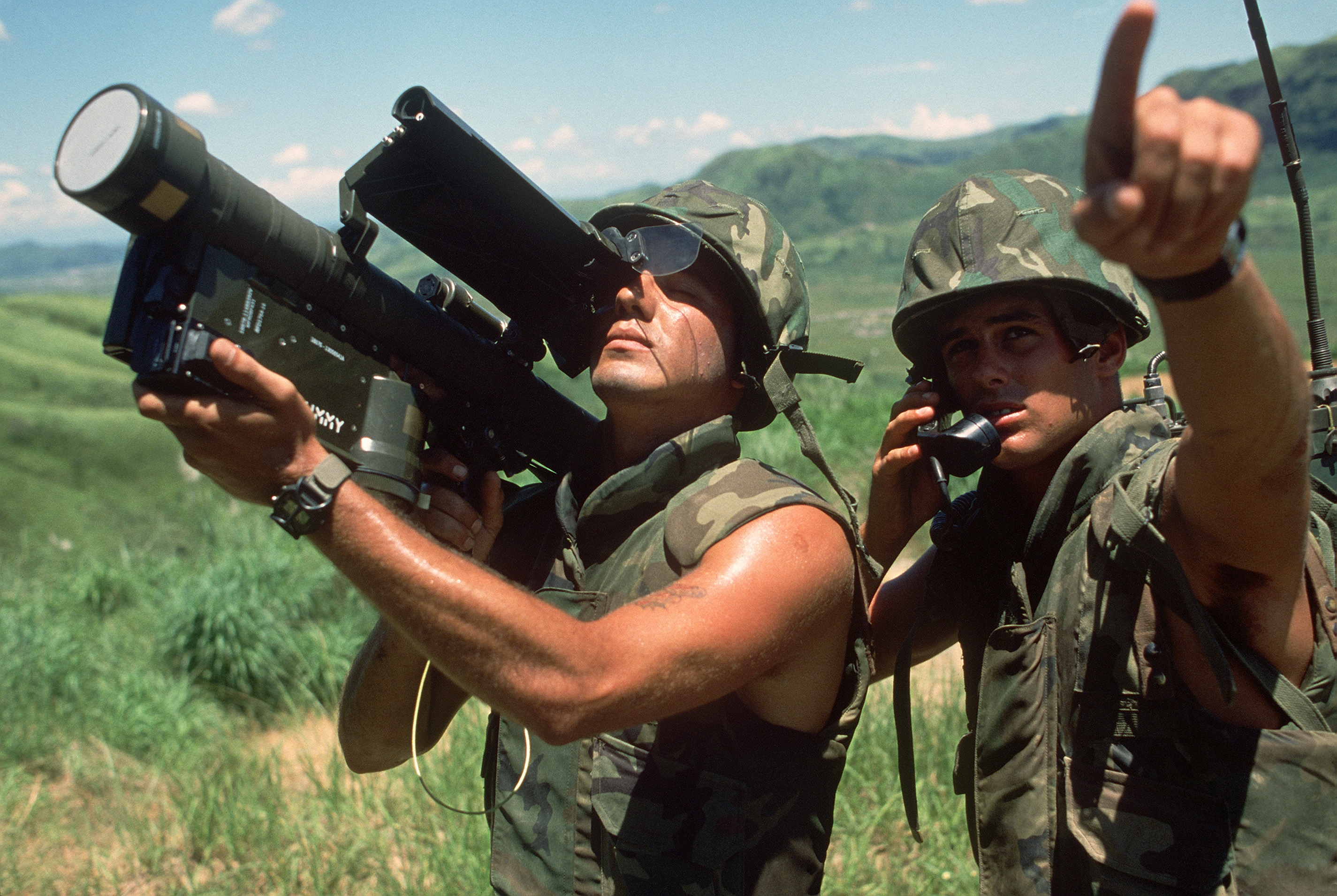 A US Marine with a field radio relays the direction of aircraft approaching the Crow Valley Electronic Warfare Tactical Range to the operator of an FIM-92 Stinger missile launcher during Exercise COPE THUNDER '84-7.